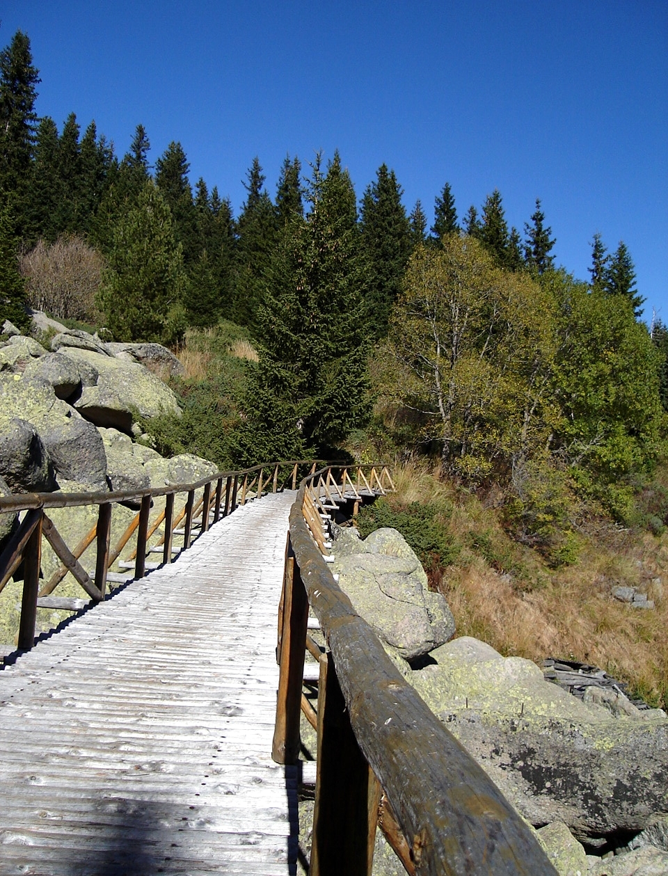 Bridge over Triagalna Gramada Stone River in Bistrishko Branishte Nature Reserve, Vitosha Mountain, Bulgaria. Photograph by Nikolay Rainov published in under Creative Commons license 2.5.